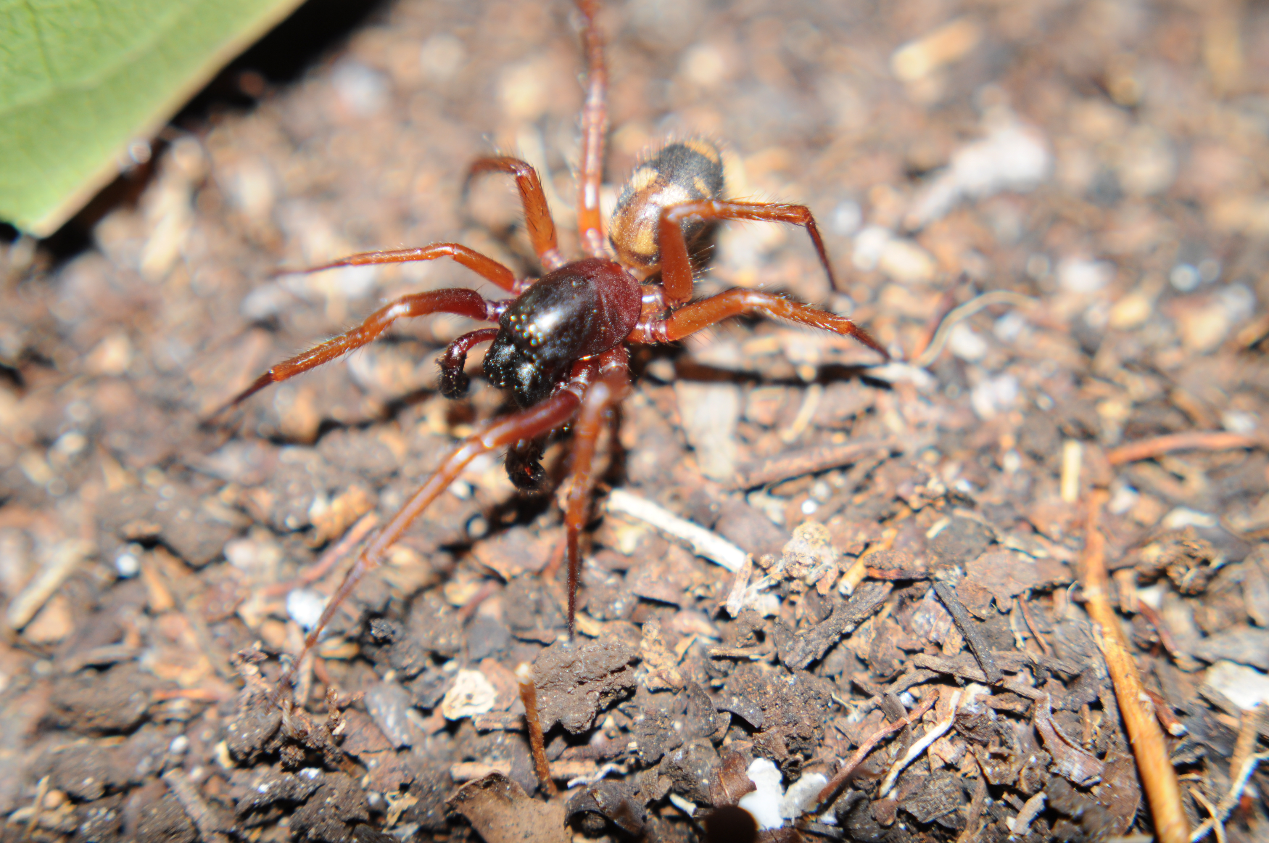 Ishania sp.? Merida, Yucatan, Mexico Perhaps this is a kind of ant mimic... It was running around some leaf cutter ants, and running quite fast! It was hard to focus on it since it was just running around like crazy without stopping!